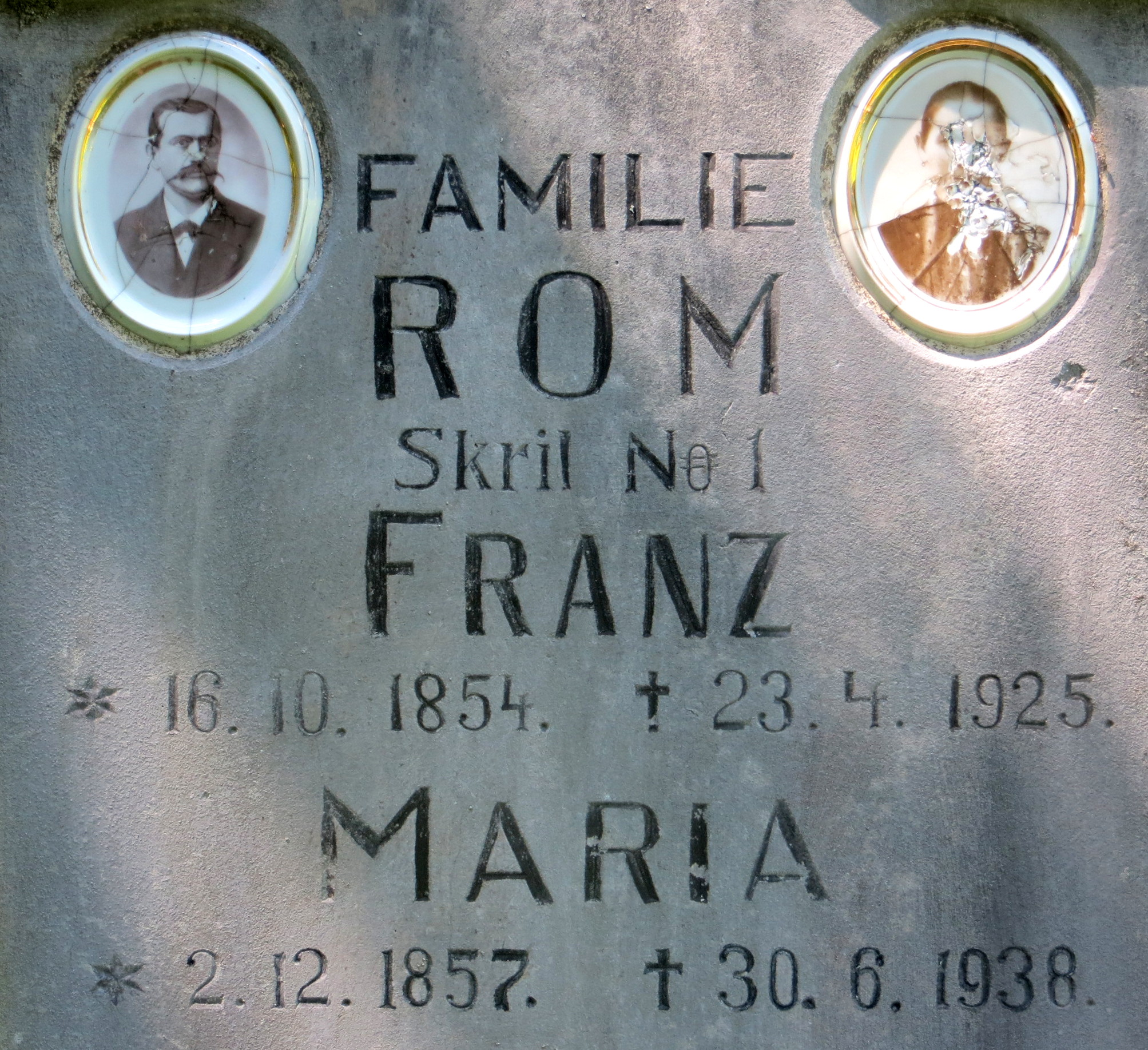 Gravestone at Prophet Elijah Church in Planina, Municipality of Semič, Slovenia with the German place name Skril(l) (Slovenian: Škrilj)